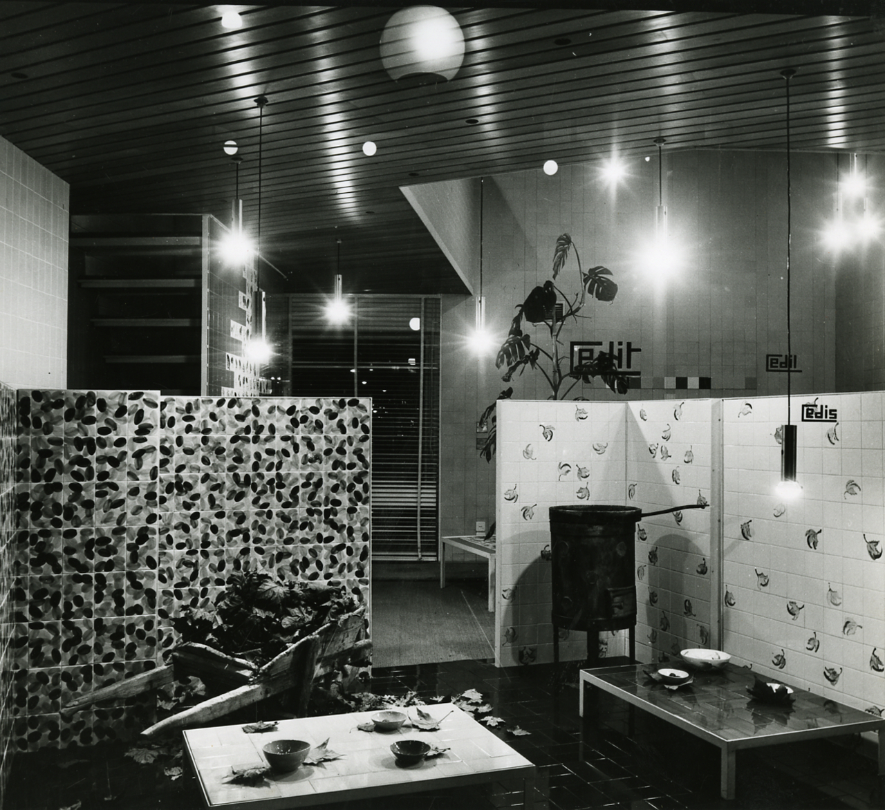 Milan. Cedit showroom. Interiors and details. Exhibition realized by Marco Zanuso.